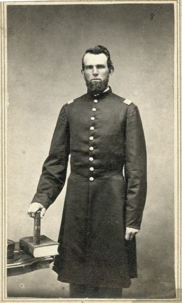 Col. Clement E. Warner, 26th Regiment, Wisconsin Volunteer Infantry; later a member of the Wisconsin Assembly and Senate